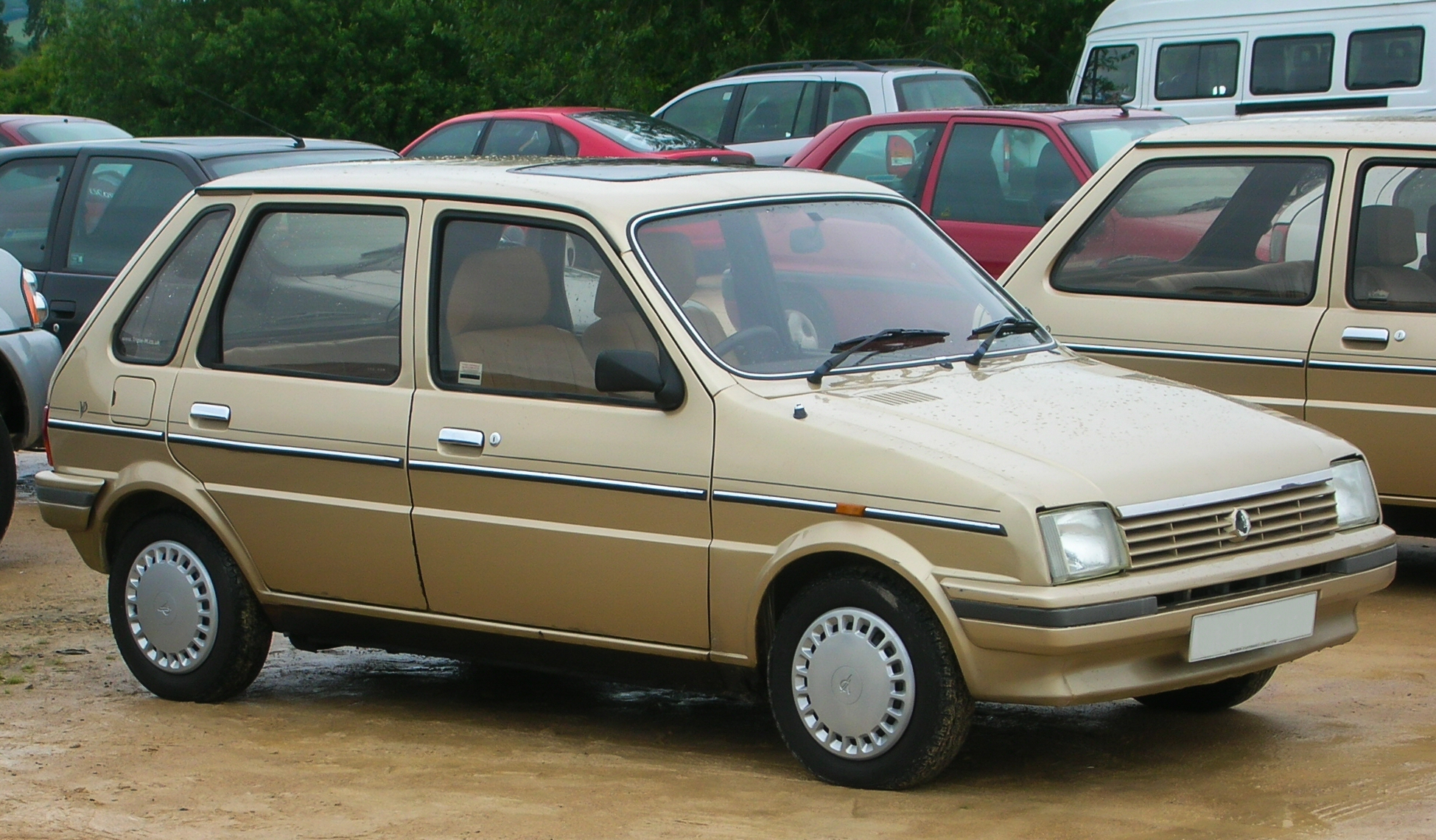 A 1985 British Leyland Austin Metro Vanden Plas Auto